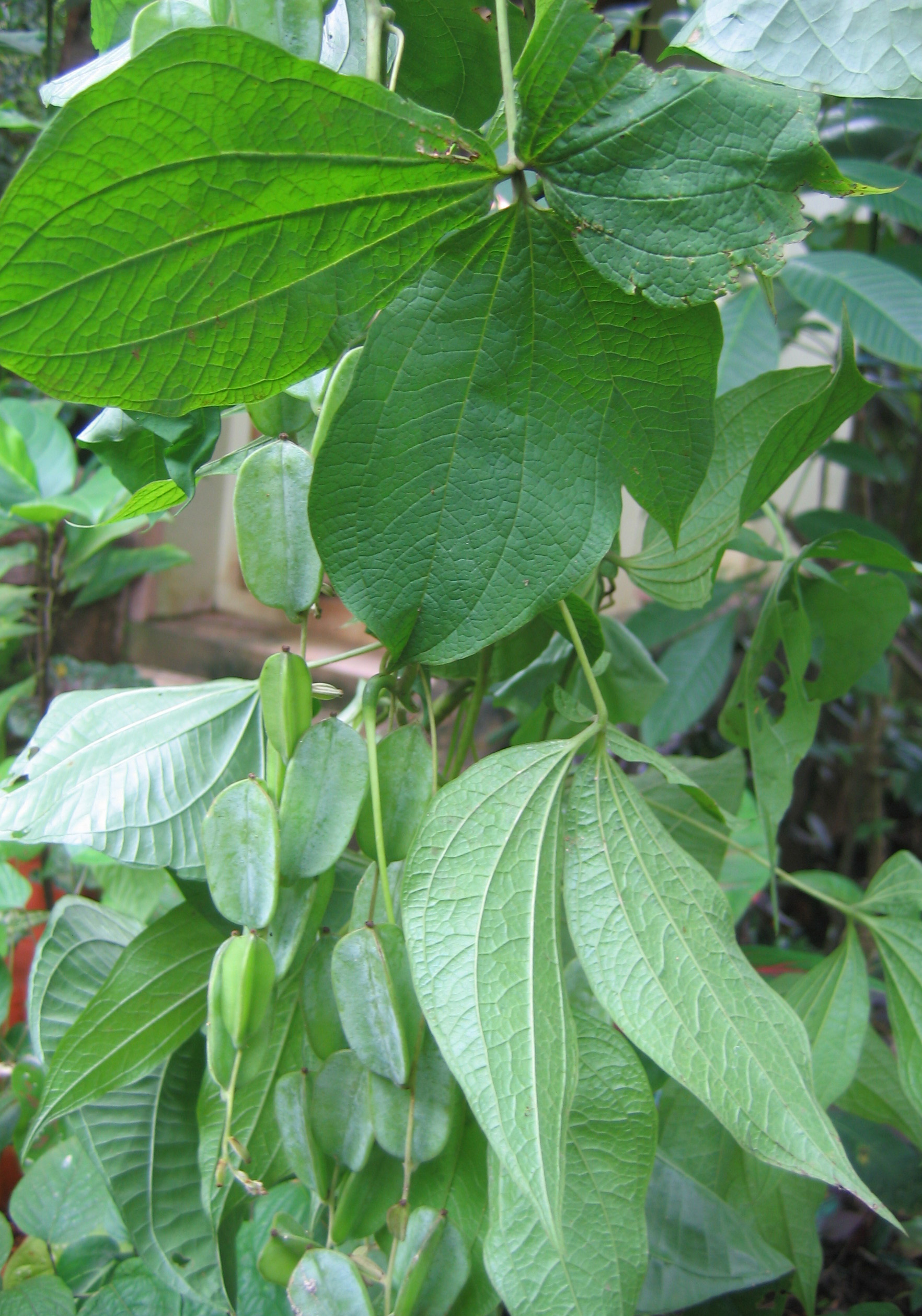 Dioscorea hispida